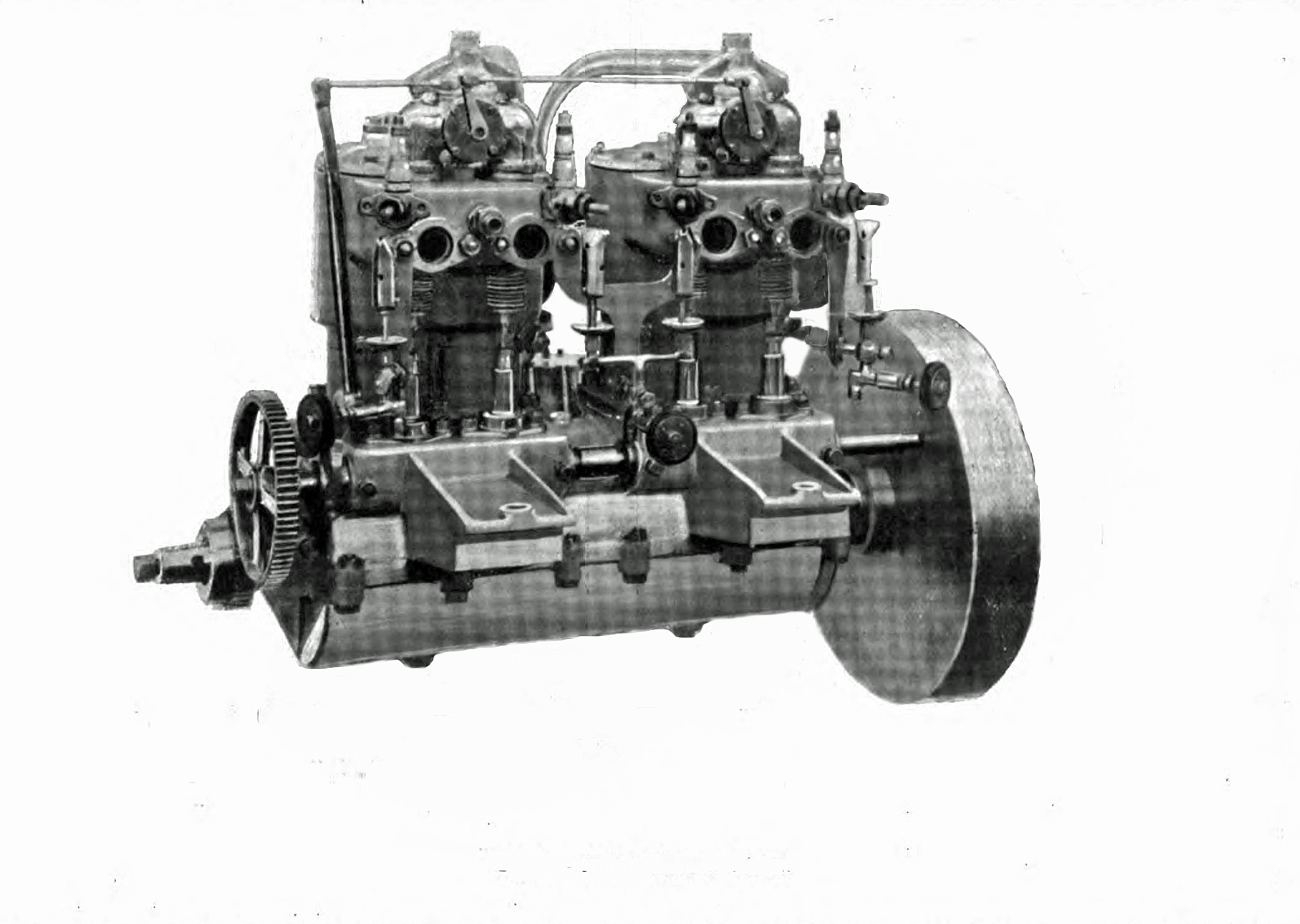 1902 Daimler 12 engine